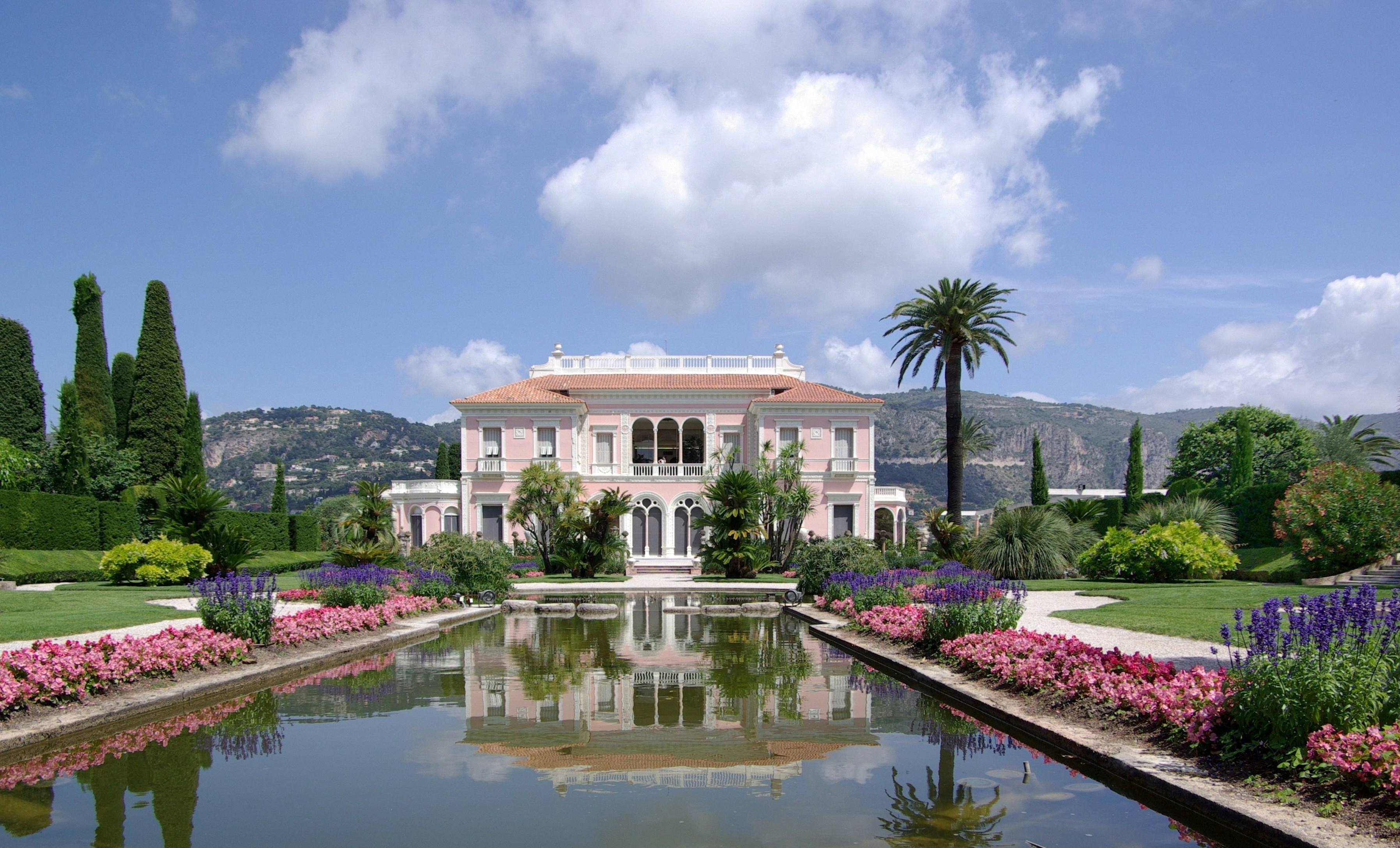 Cap Ferrat, Villa Ephrussi de Rothschild, France